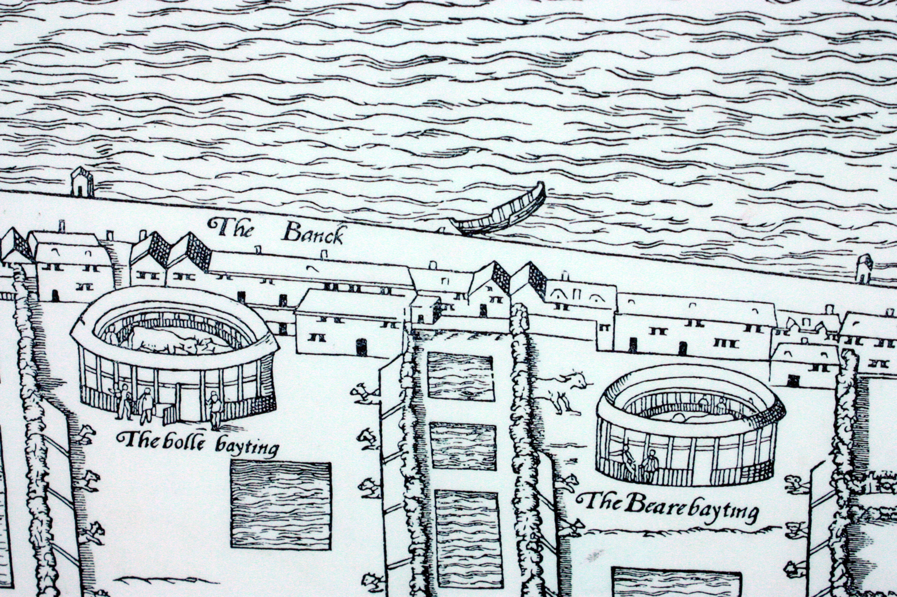 Bull and Bear Baiting arenas shown on the Agas Map of London of 1560